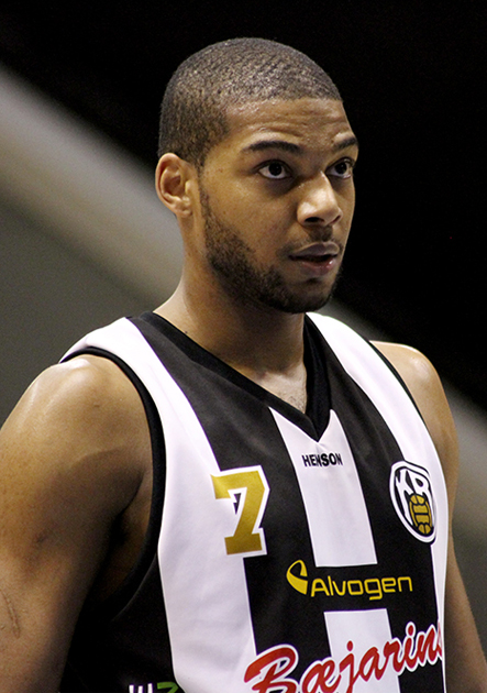 Michael Craion with KR Basket in the 2015 Icelandic Basketball Cup finals.